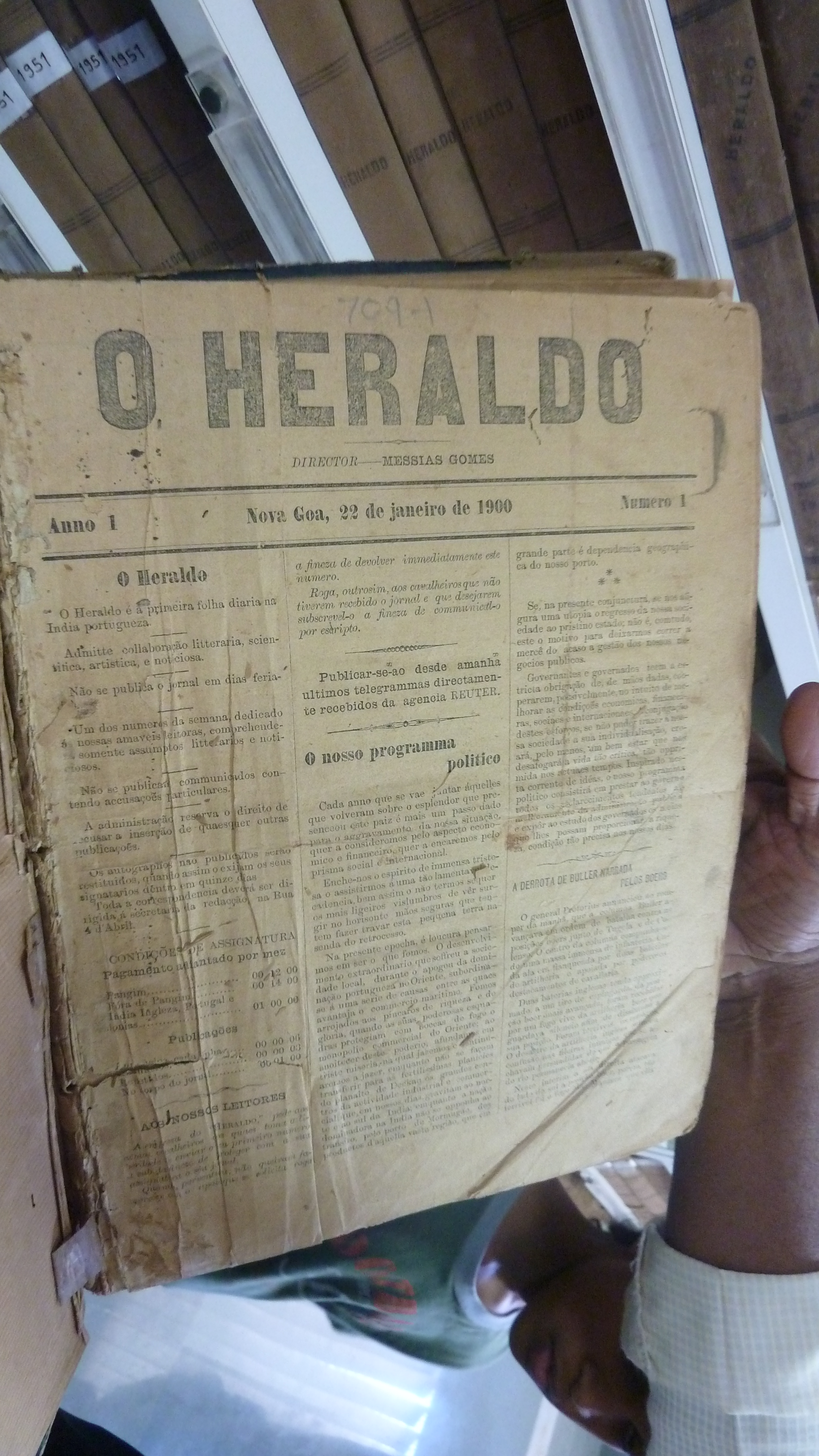 State Central Library, Goa Dec 27, 2012